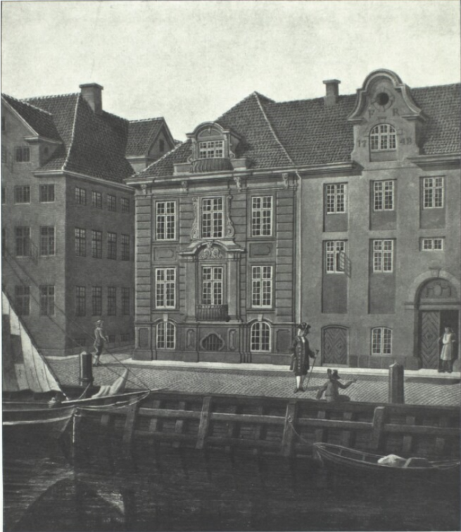 Hofkonditor Zieglers Gård in Copenhagen, Denmark